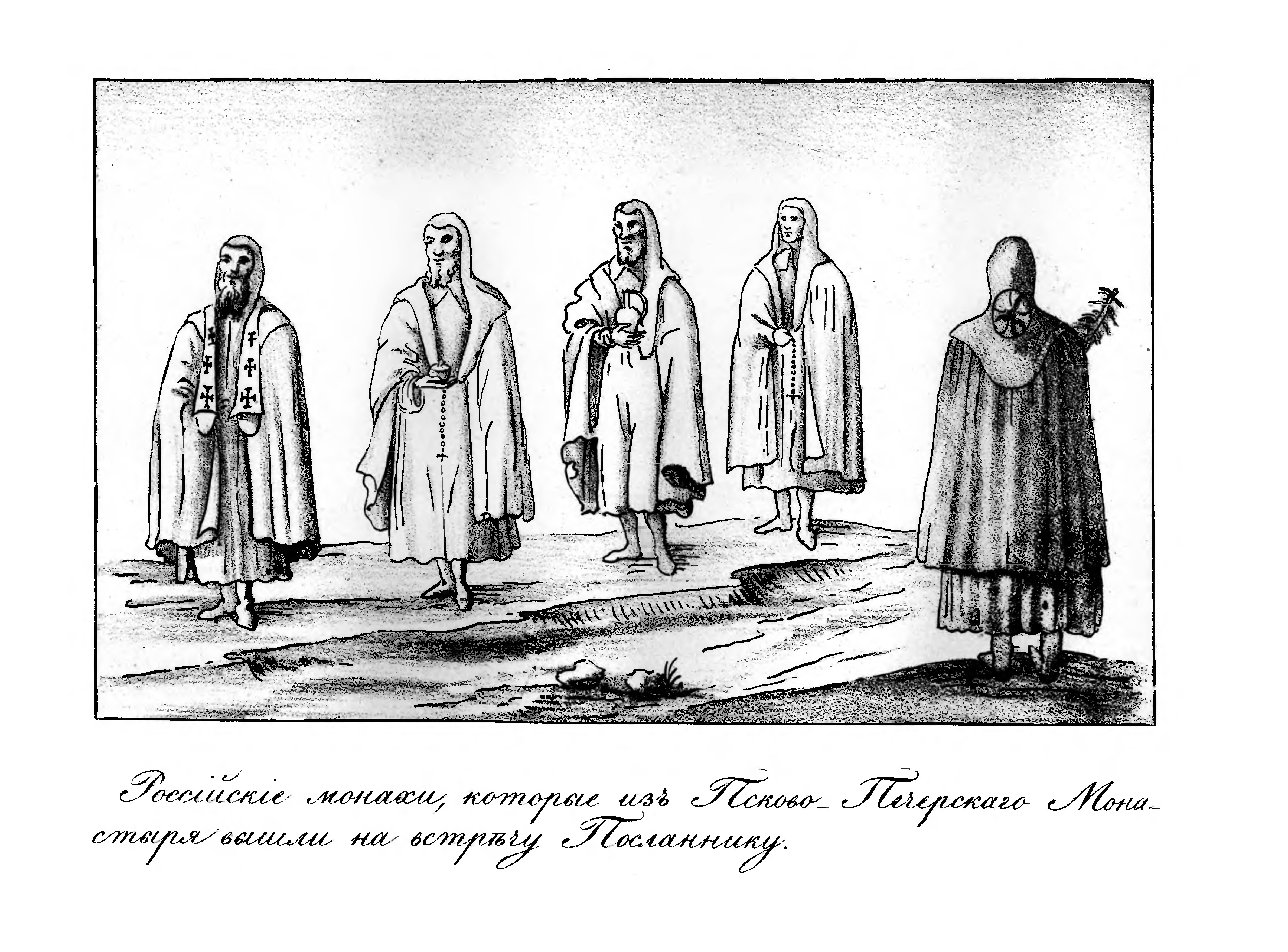 This is picture from austrian diplomat Augustus Mayerberg book "Traveling to Moscovia". This picture was made in 1661 year.